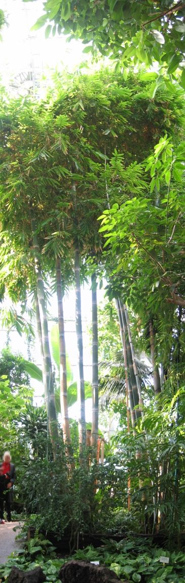 Big bamboo plants in the Botanical Garden (Berlin); species Dendrocalamus giganteus, subfamilia Bambusoideae